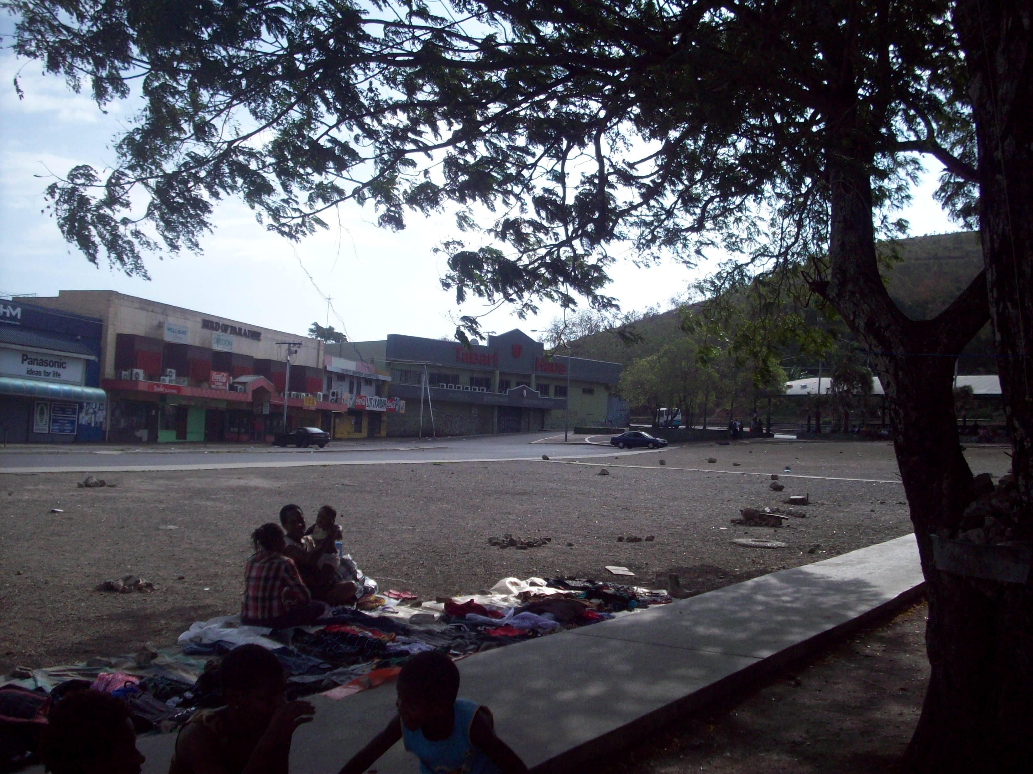 Hohola in decline 2013